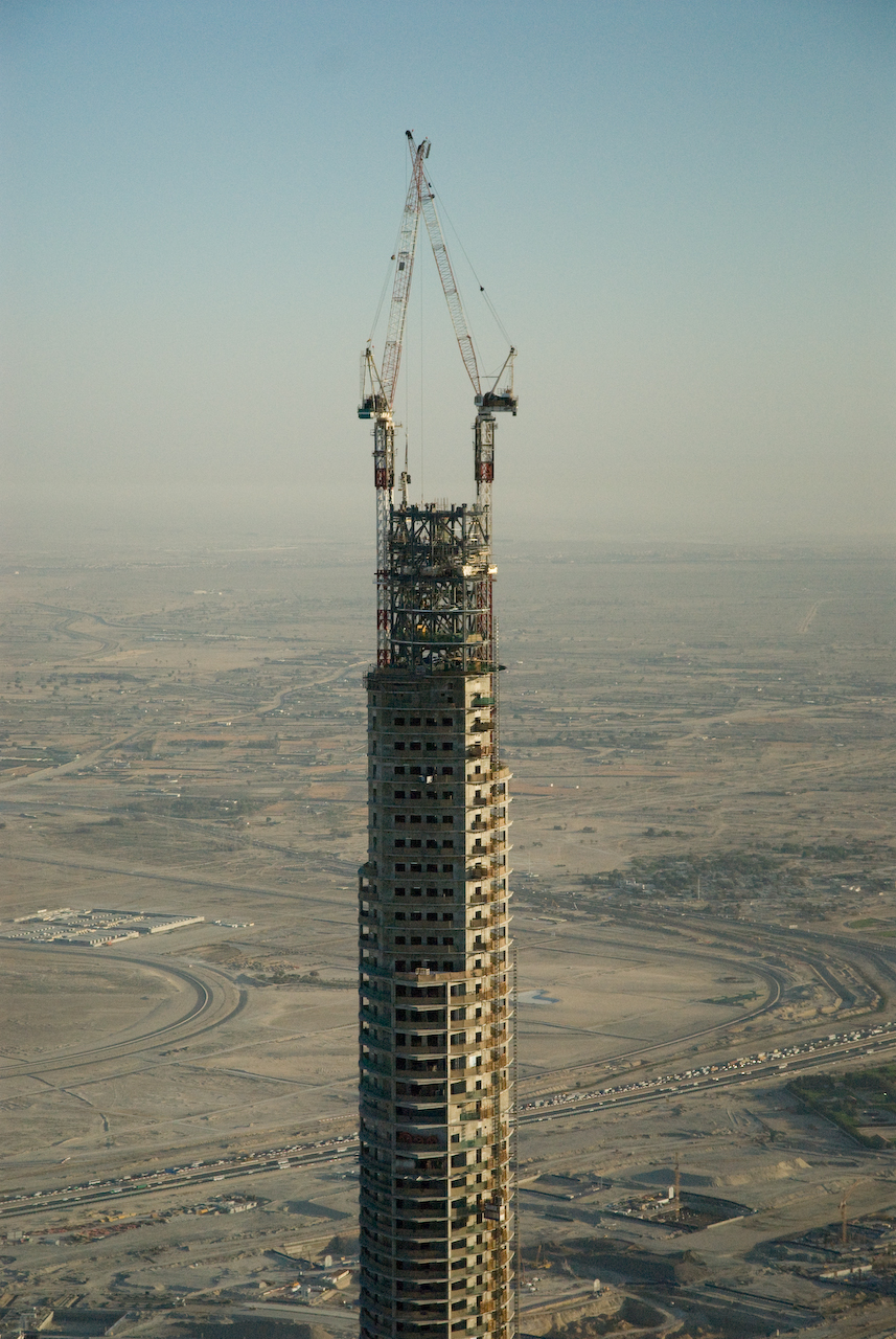 The Burj Khalifa from 2000 feet